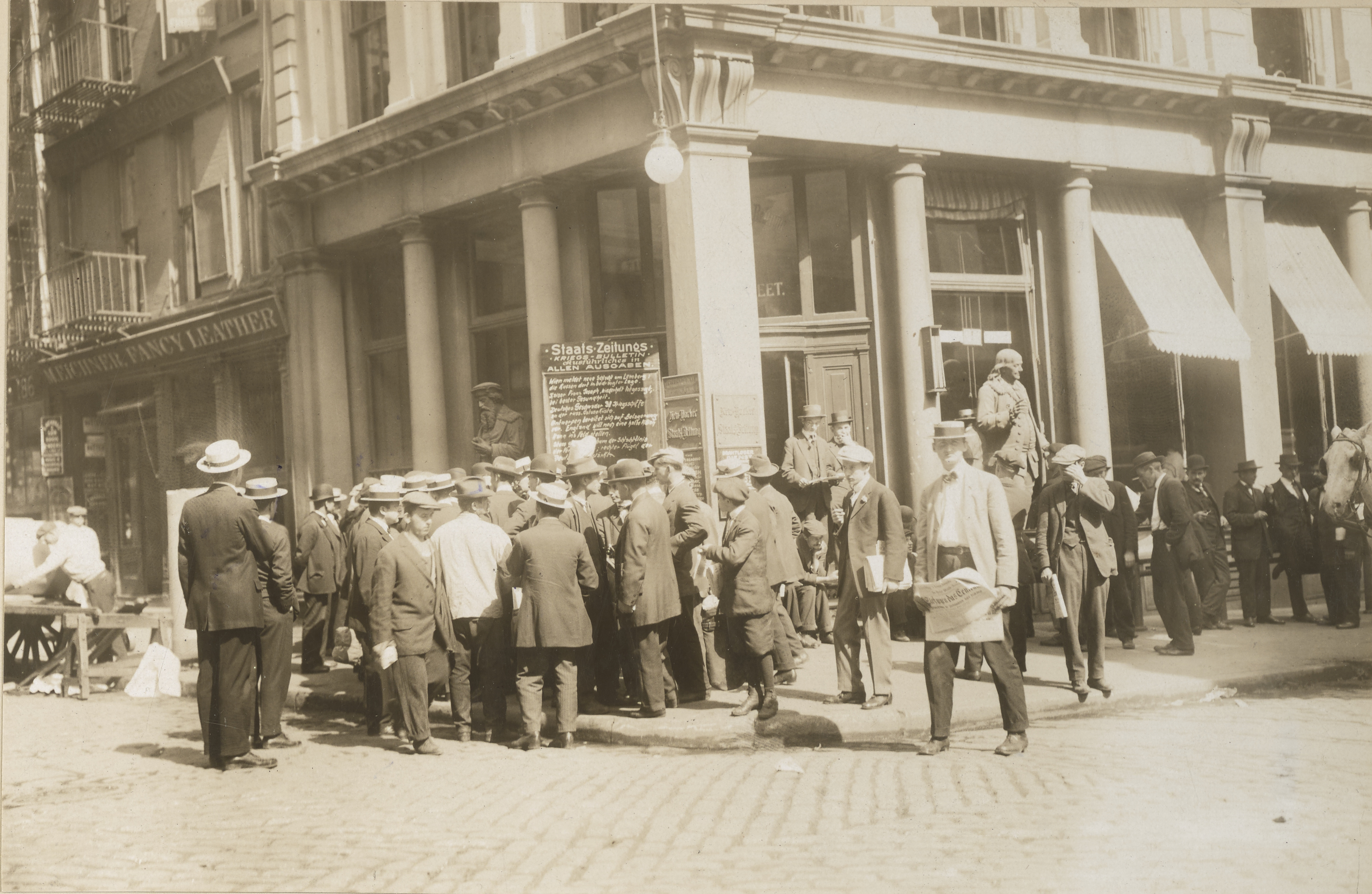 Scope and content: Date Taken: 1914 Photographer: Brown Brothers